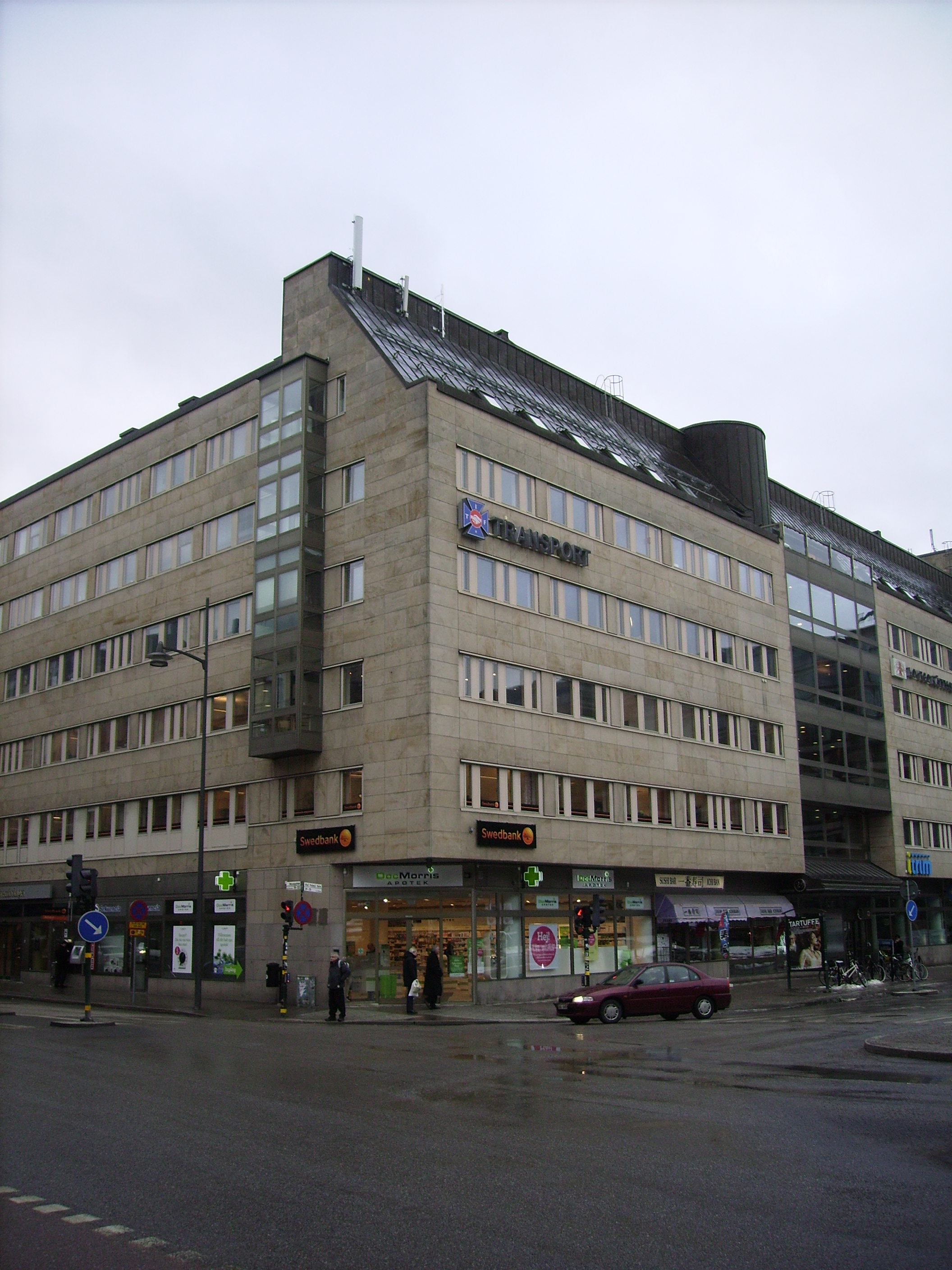 Picture of Transportförbundets building in Stockholm